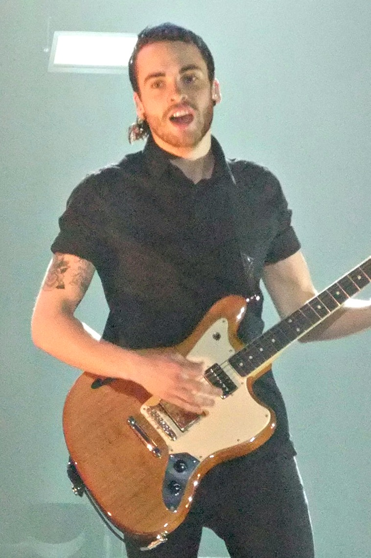 cropped